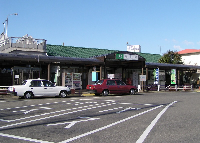 This is a photograph of 新町駅 (群馬県) and was taken by User:Kouchiumi on March 31, 2006.